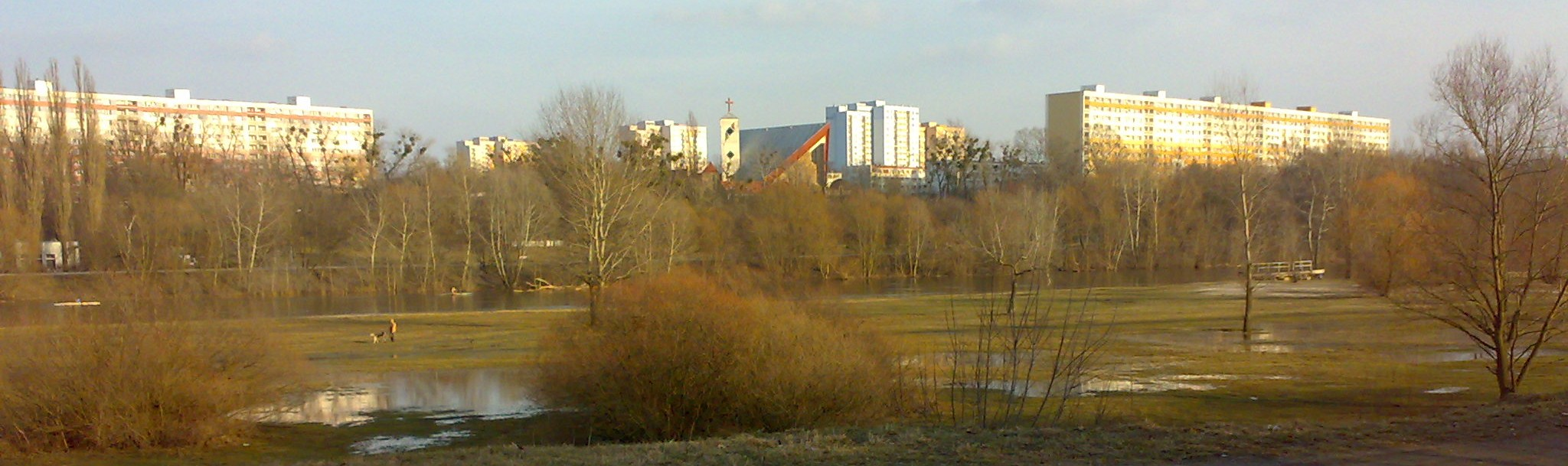 Piastowskie District in Poznan.